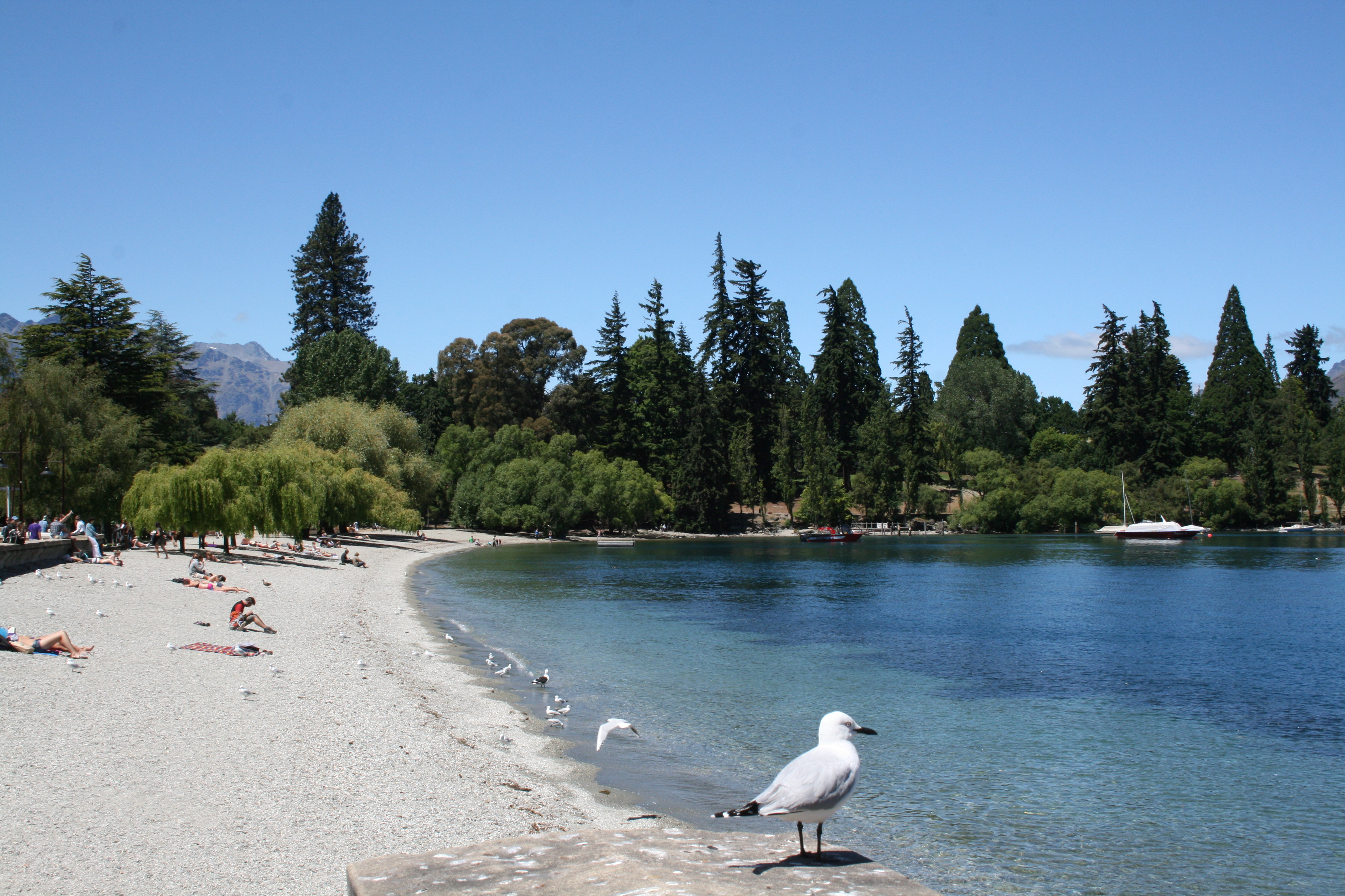 Queenstown, New Zealand